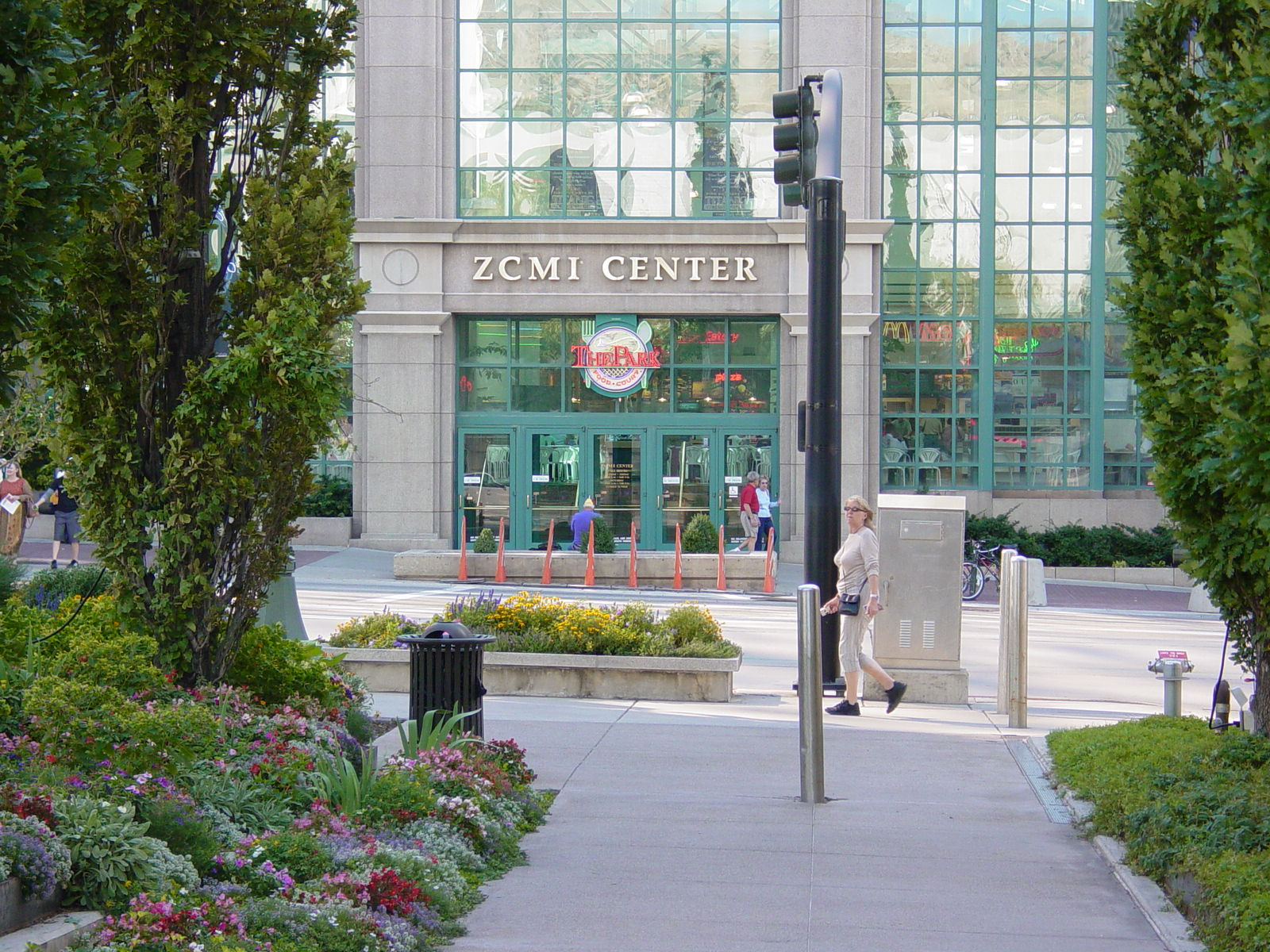 Photograph of the ZCMI Center in downtown Salt Lake City